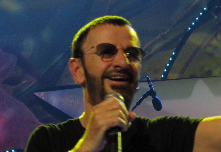 Ringo Starr concert in Paris June 26, 2011 : Ringo Starr and his All-Starr Band